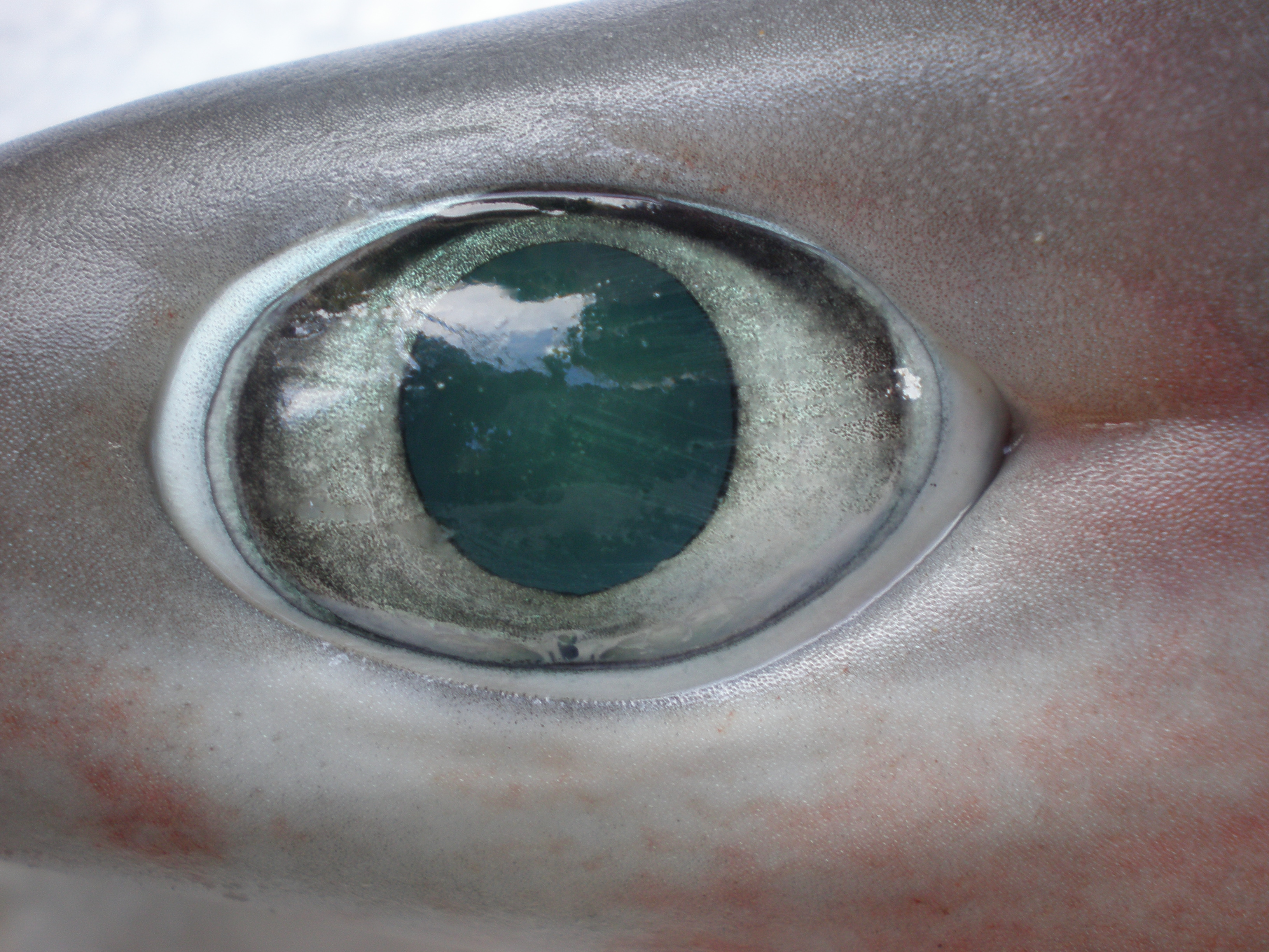 Hexanchus nakamurai. Detail of eye. Locality: near Passe de Dumbéa, off Nouméa, New Caledonia, Coordinates 22°19'670S, 166°12'899E. Total length 1020 mm, Weight 3,600 grams. Date 03 July 2008. This specimen has been identified by Bernard Séret, IRD-MNHN.